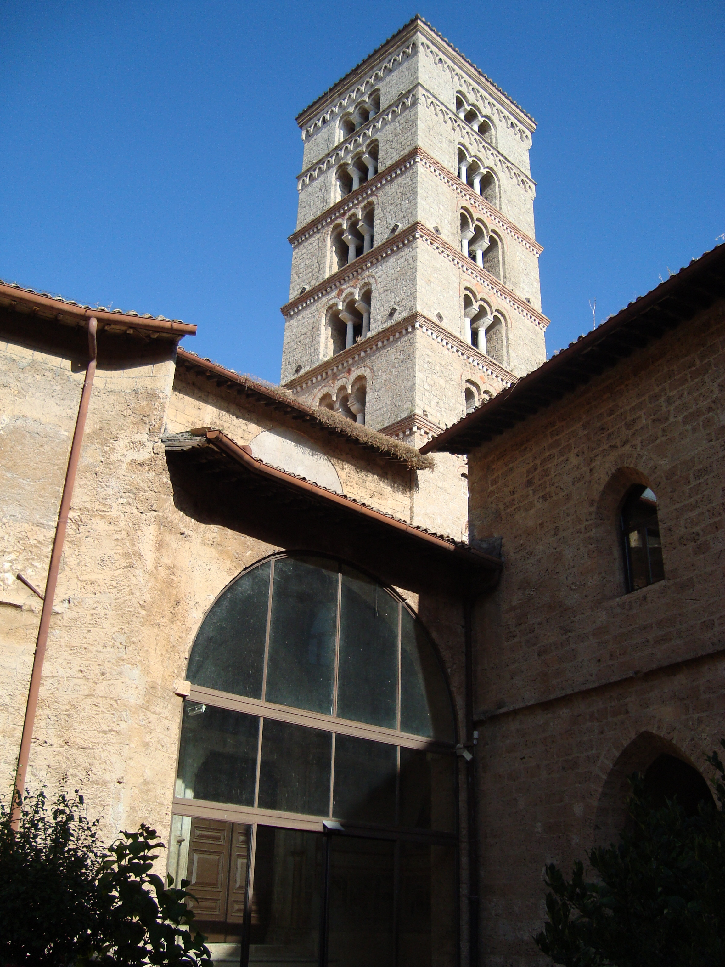 Campanile of the Abbey Santa Scholastica, Subiaco, Italy